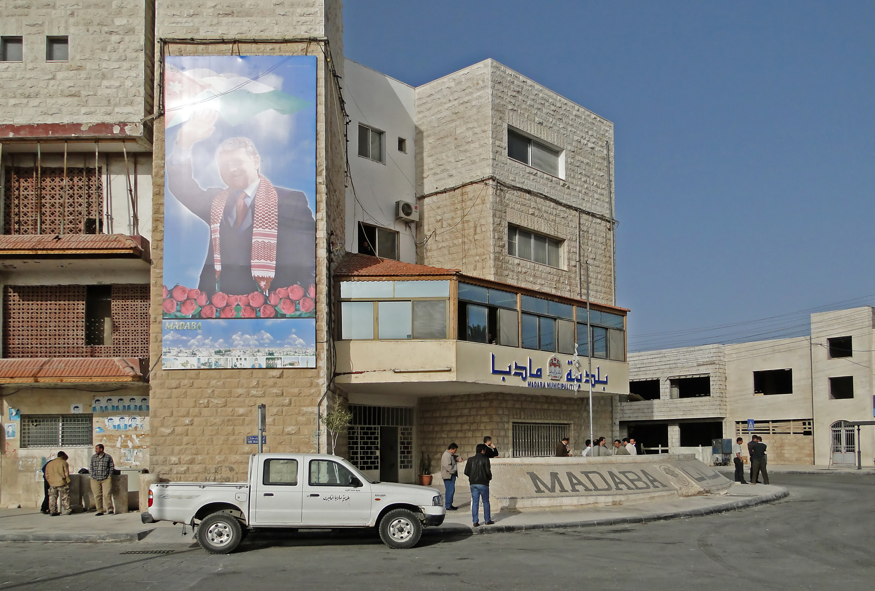 City hall of Madaba, Jordan